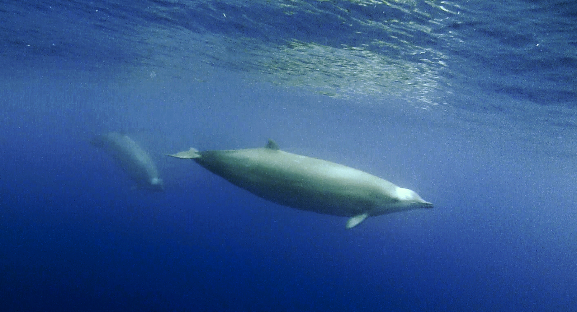 True’s beaked whale observed off Pico showing a pale blaze on the melon